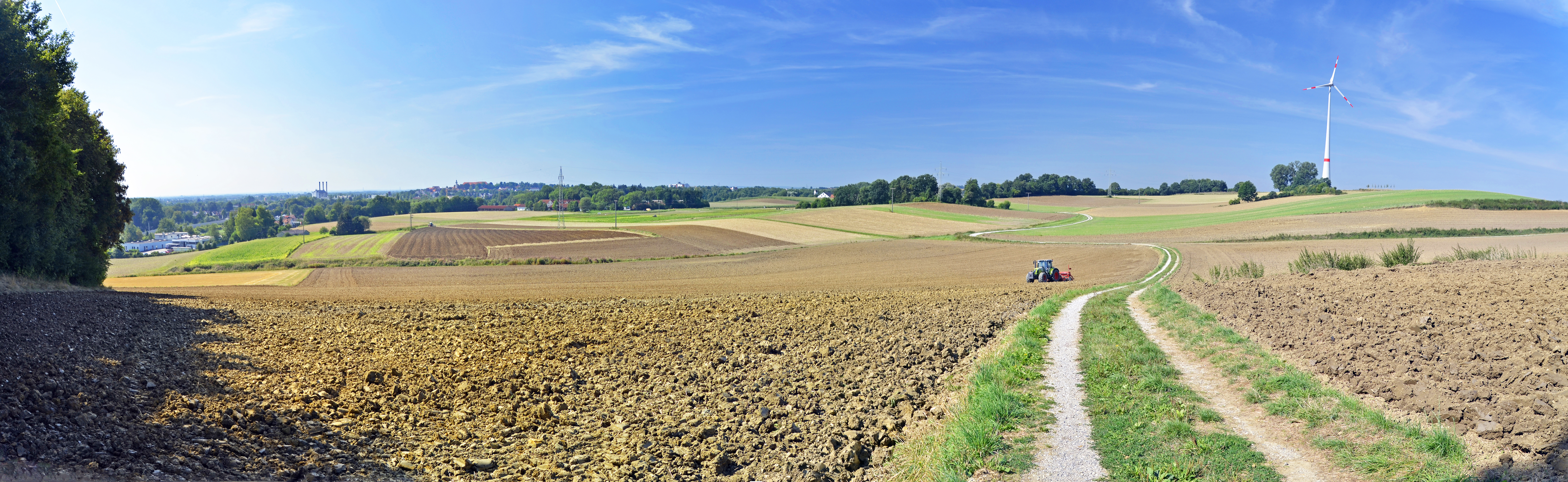 Landscape near Dachau with Wind Turbine (View by Northeast)